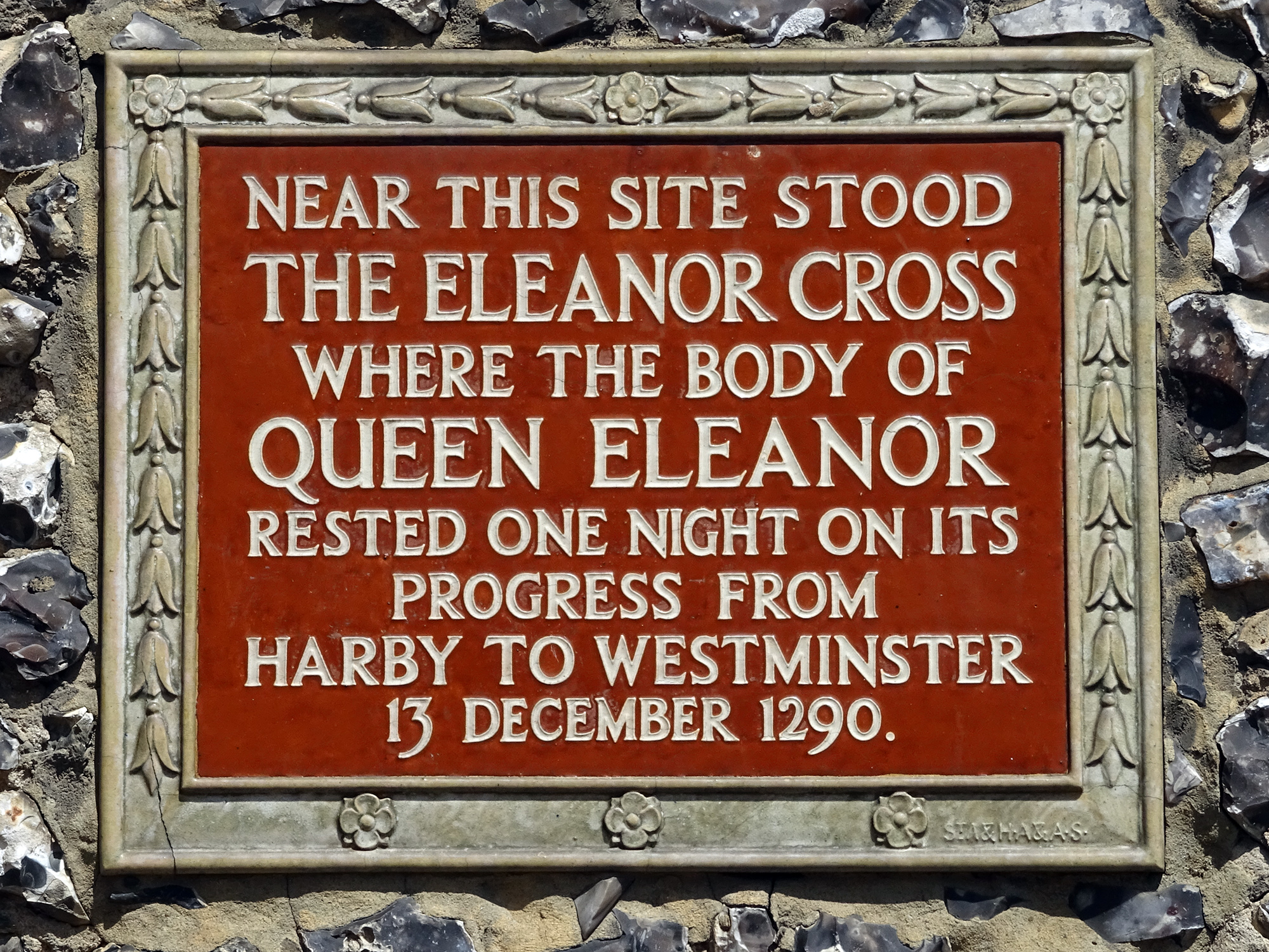 Plaque erected at The Clock Tower High Street St Albans Hertfordshire AL3 4EL by the St Albans and Hertfordshire Architectural and Archaeological Society